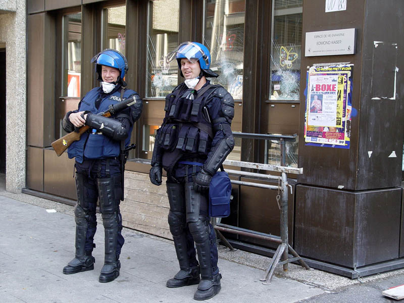 G8 at Evian and effects at Geneva in june 2003. Policeman defending "Hotel des Finances" (Photo by Yvan Agnesina).